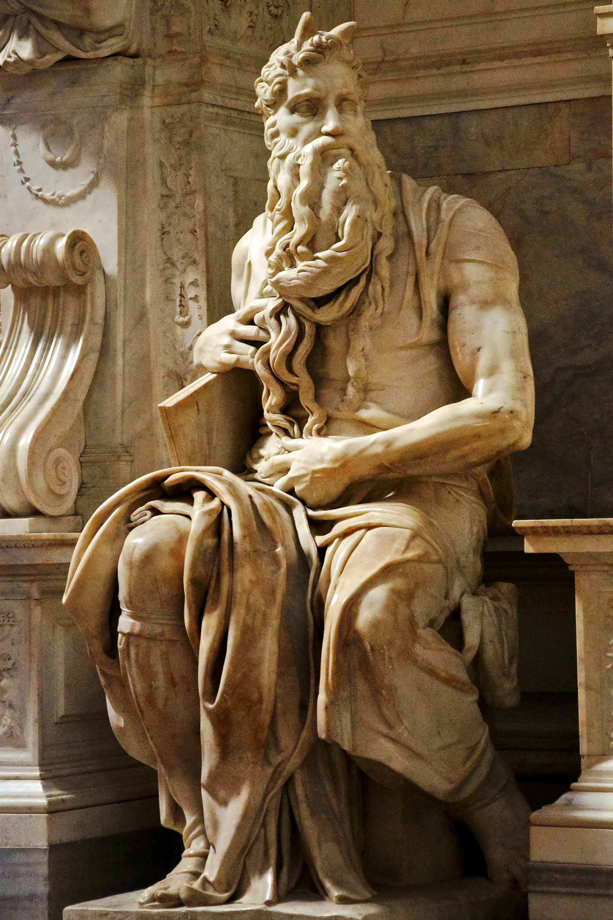 Michelangelo's Moses